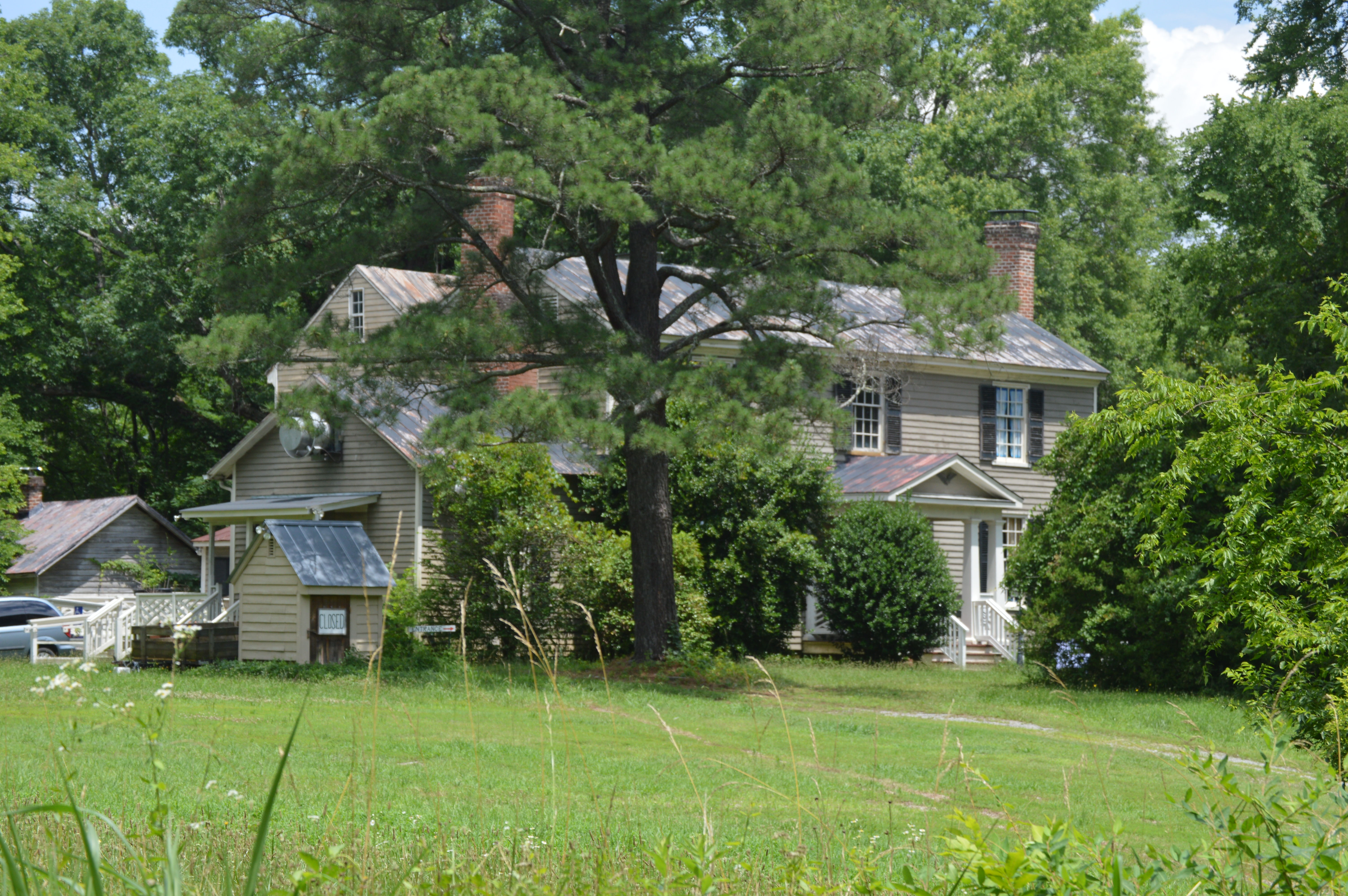 Front and southwestern side of Sunnyside, located on Shiny Rock Road in Clarksville, Virginia, United States. Built in 1836, it is listed on the National Register of Historic Places.